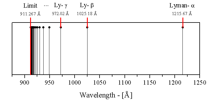 A simple plot showing the distribution of Lyman series absorption/emission lines. I made the plot, and it's free for use.